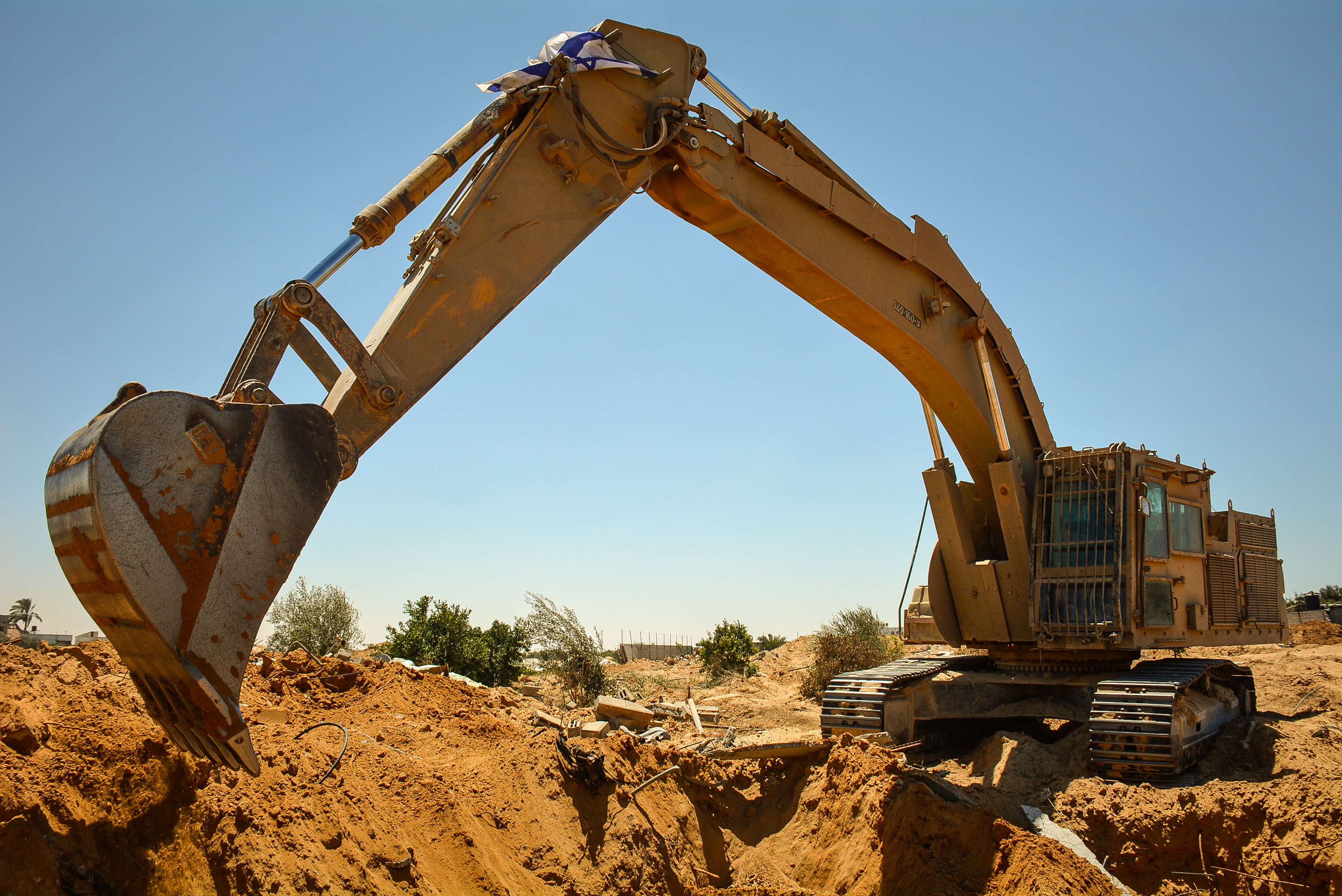 IDF Soldiers During Operation Protective Edge IDF soldiers operating in Gaza. An armored Caterpillar 349E excavator exposing terror tunnel.